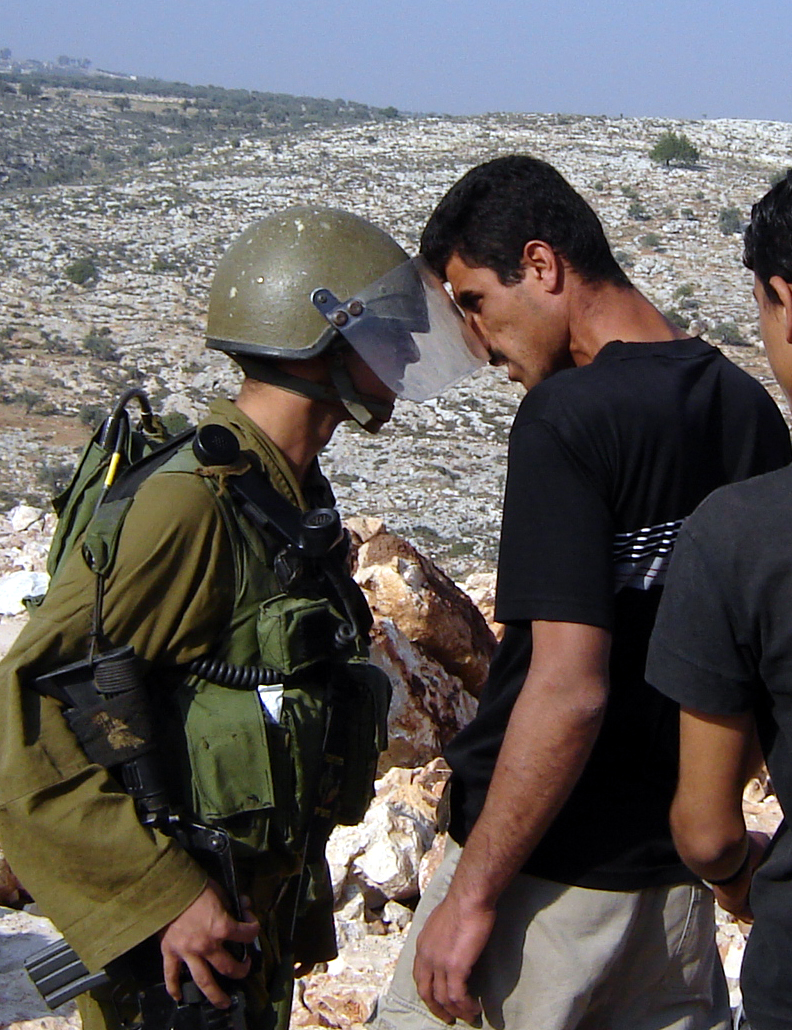 Challenge of Bil'in People against Apartheid Wall